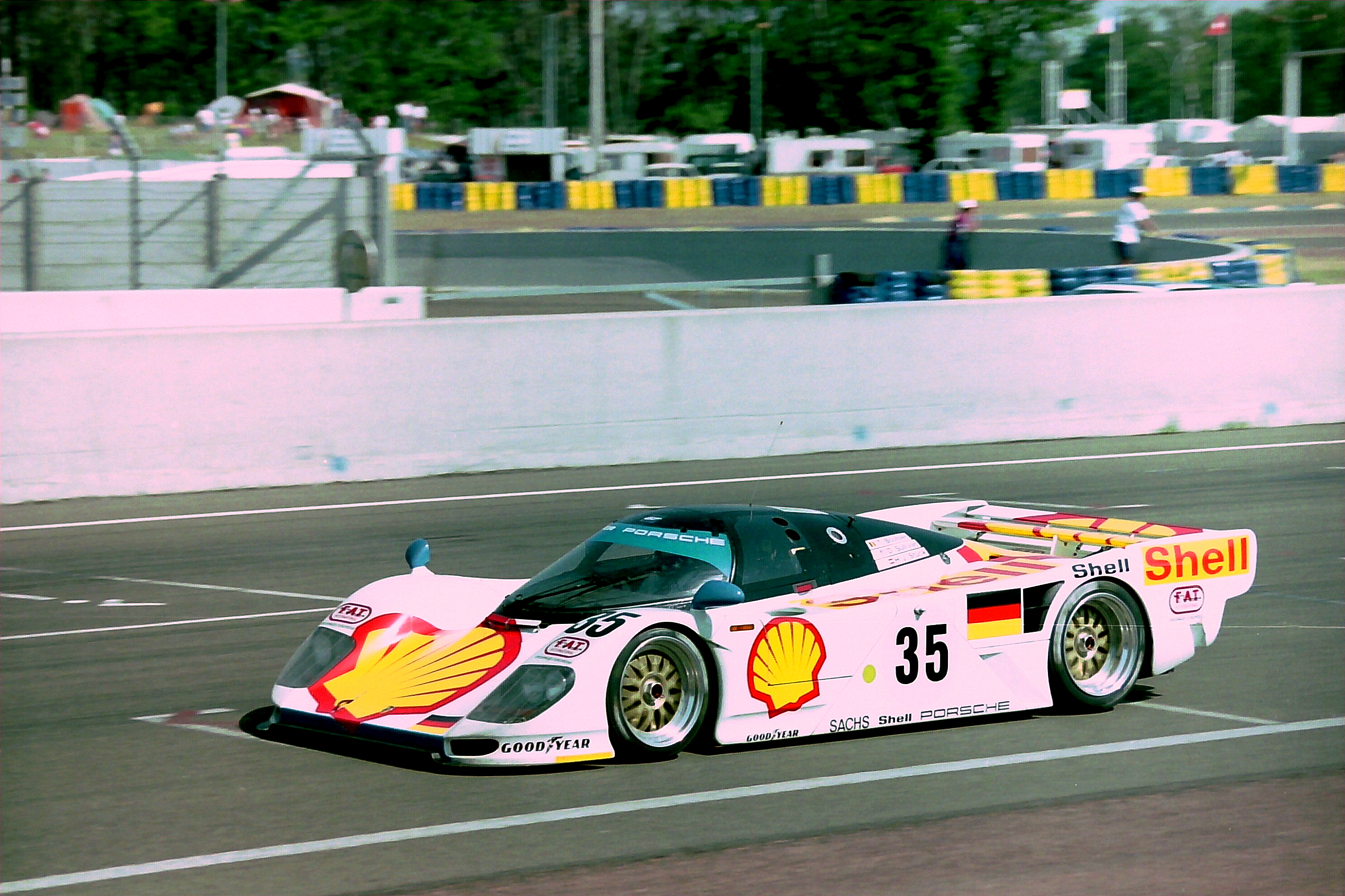 Dauer 962 LM - Hans-Joachim Stuck, Thierry Boutsen & Danny Sullivan on the pit straight at the 1994 Le Mans